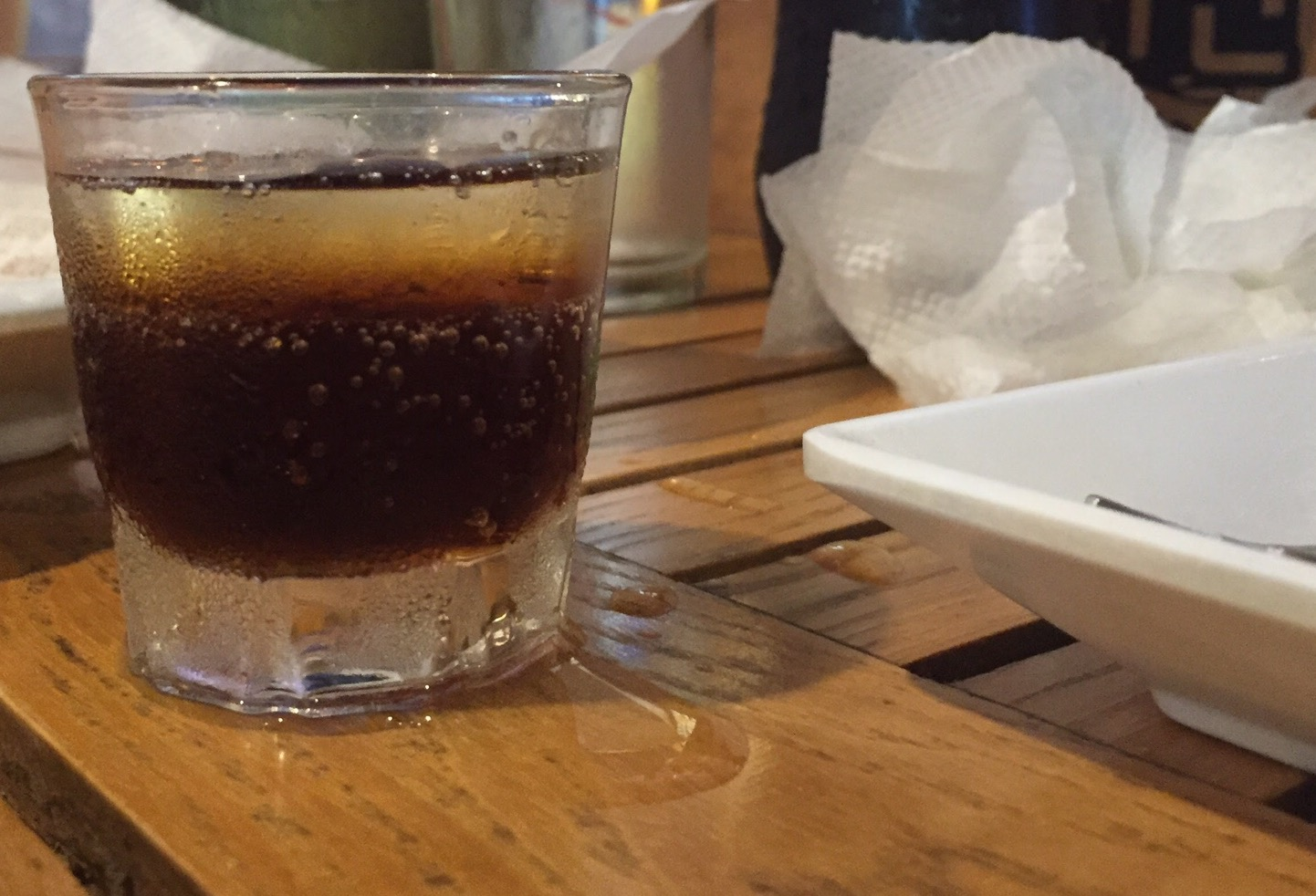 A "soju cola" made by distilling the alcohol through a napkin so that it floats atop the cola, making the cola the last tasted.